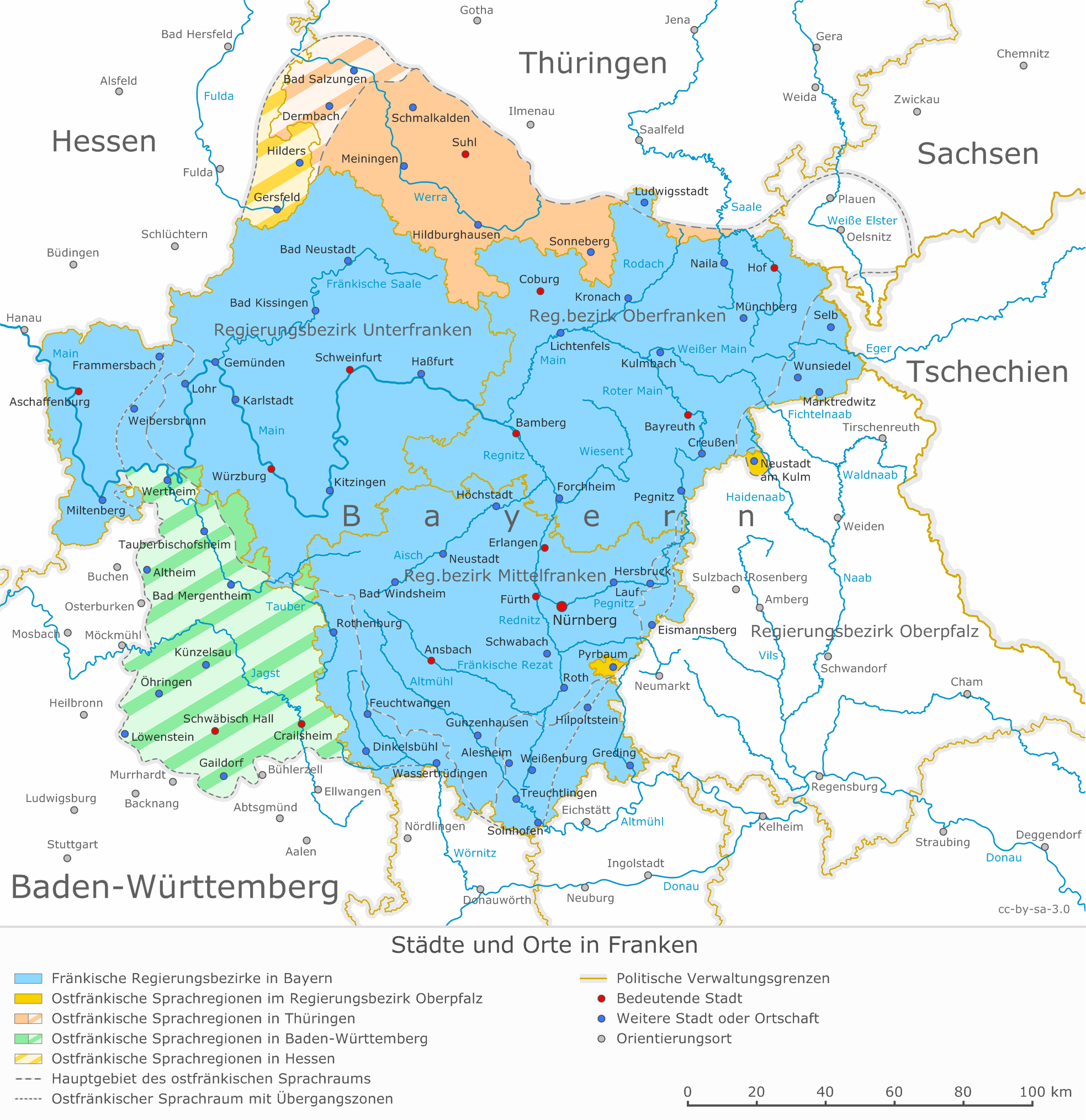 Cities and towns in Franconia